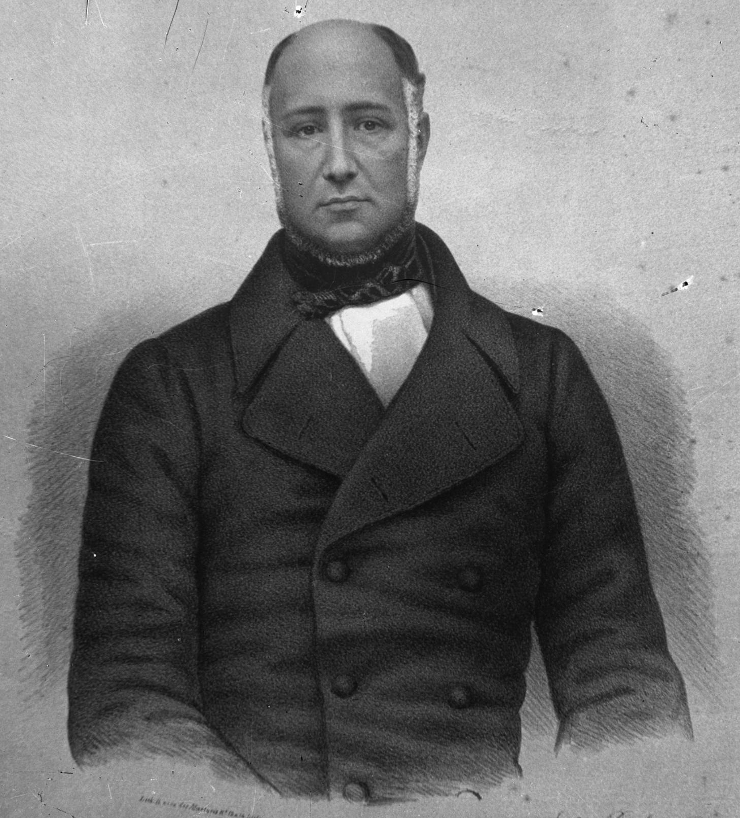 Jerónimo de Almeida Brandão e Sousa, first and only Baron of Folgosa (1801-1848).